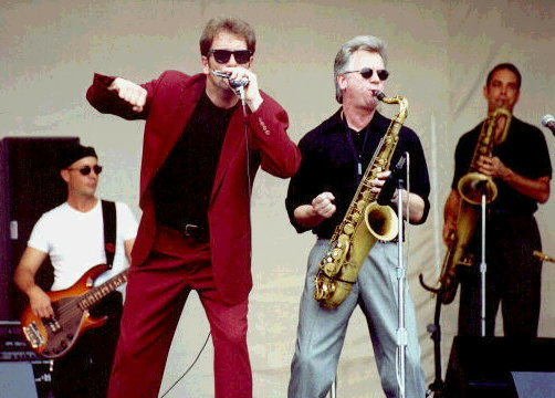 Huey Lewis and the News performing at at Gulfstream Park in Hallandale, FL